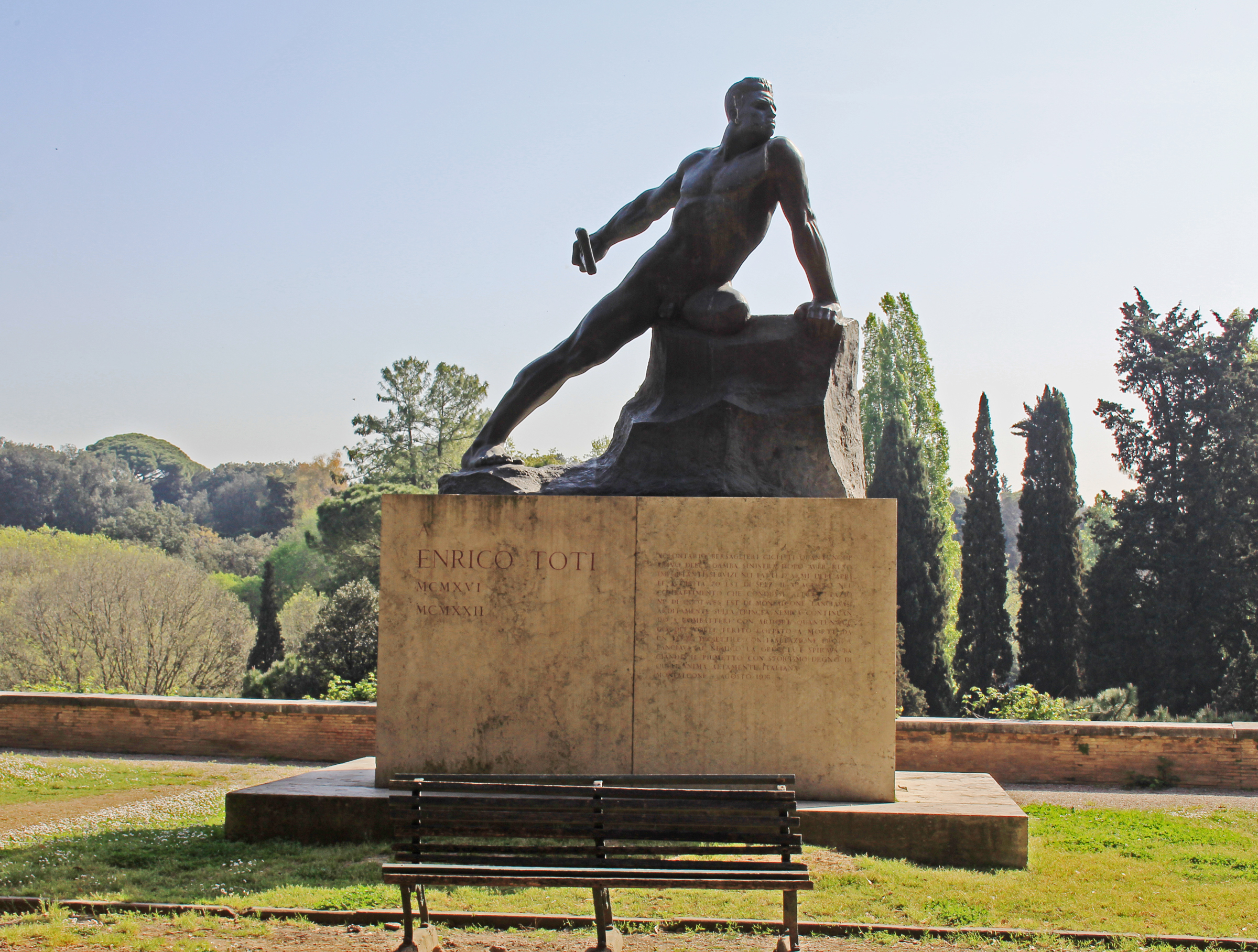 Statue of Enrico Toti in Villa Borhgese gardens, Rome, Italy